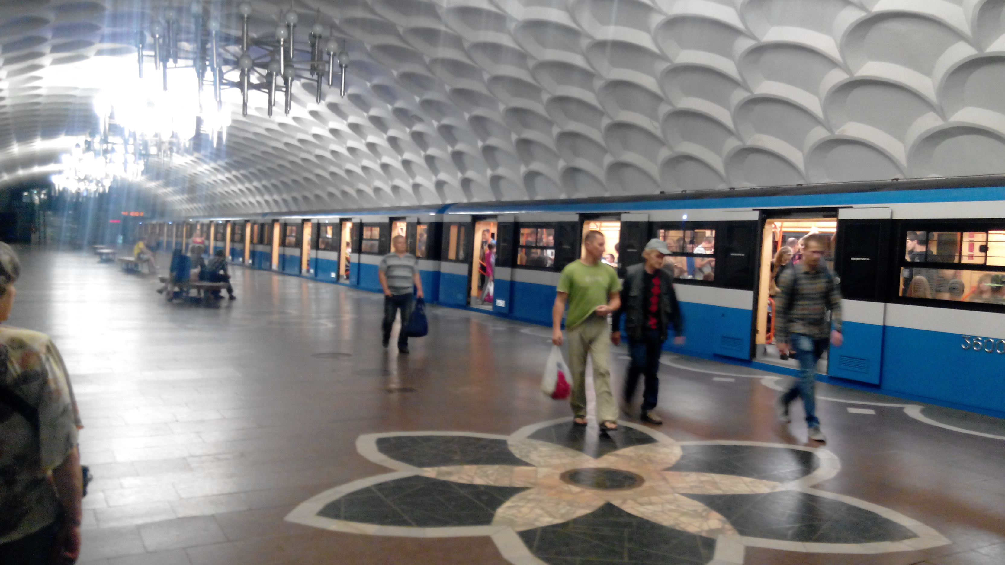 New train with coaches type 81-7036/7037 manufactured by the "Kriukov carriage-building plant" on the station "Kyivska" of Kharkiv metro.